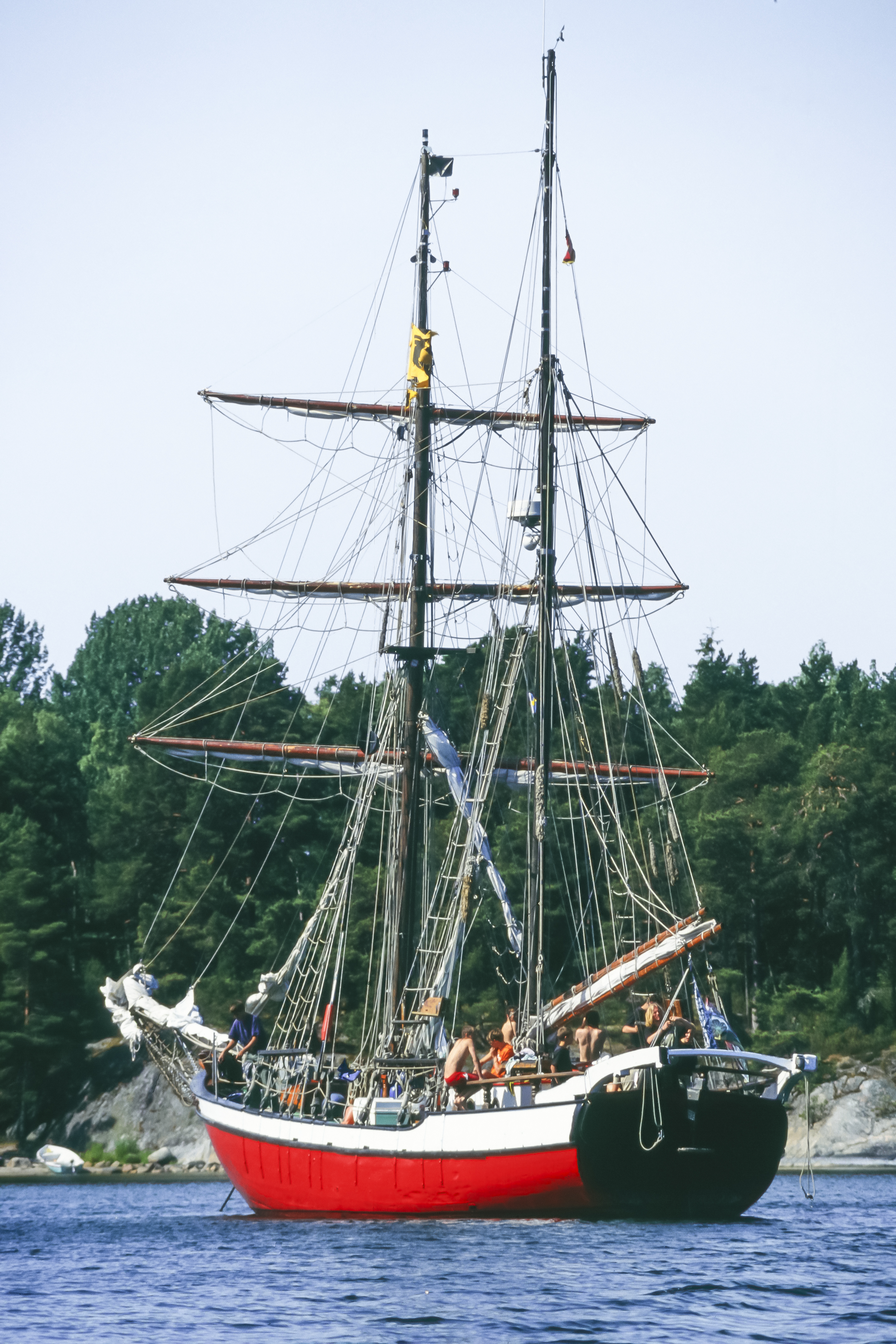 Sweden: Brigantine "Falado von Rhodos" anchoring at an archipelago of the Swedish Coast